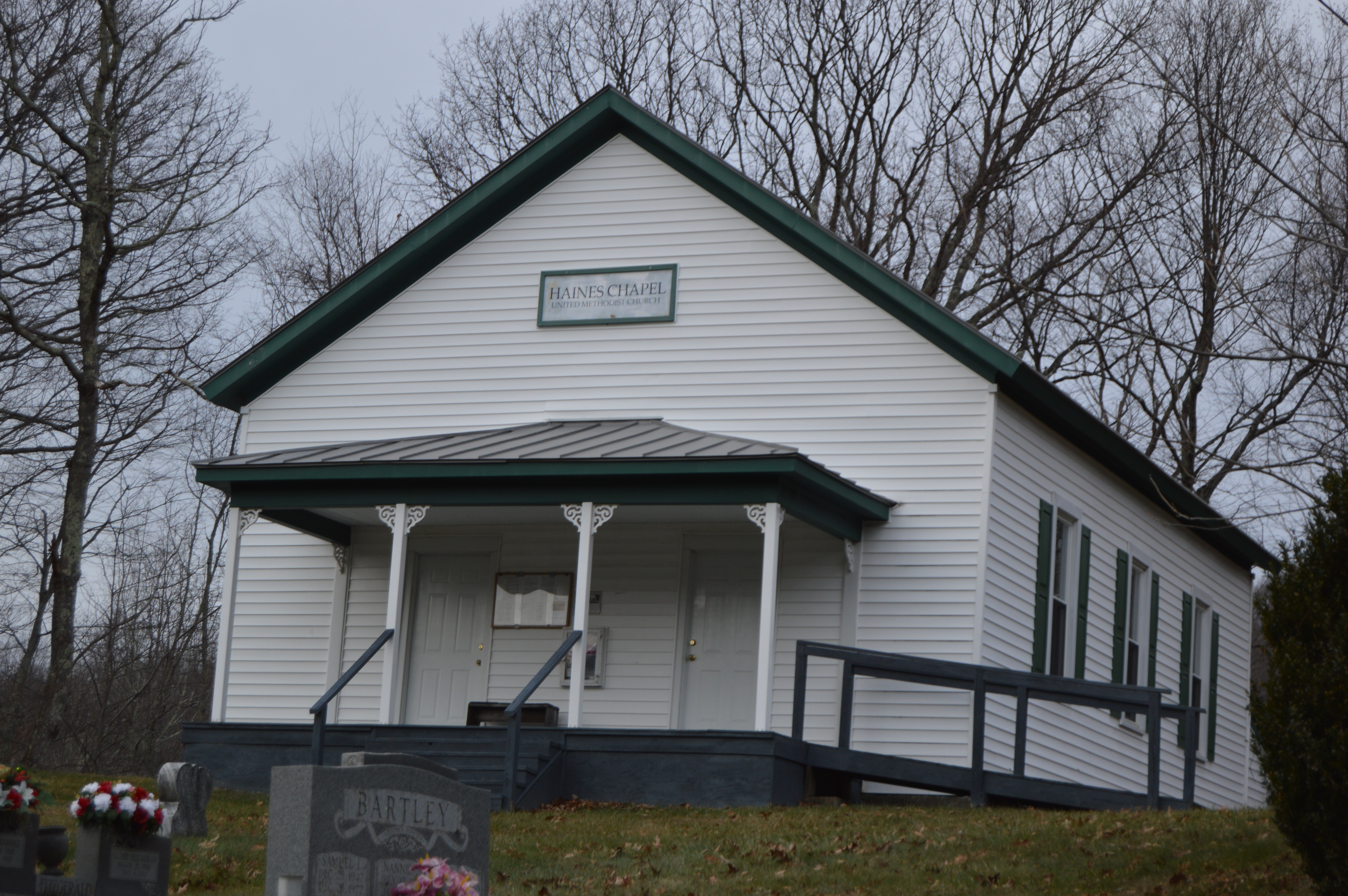 Front and eastern side of the former Haines Chapel, located at 2600 State Route 26 southeast of Vesuvius in the U.S. state of Virginia. The church straddles a county line; the southwestern corner (left edge of the facade) is in Rockbridge County, while most of the facade and most of the rest of the building is in Nelson County. Built in 1914, the church and its associated cemetery are listed on the National Register of Historic Places.